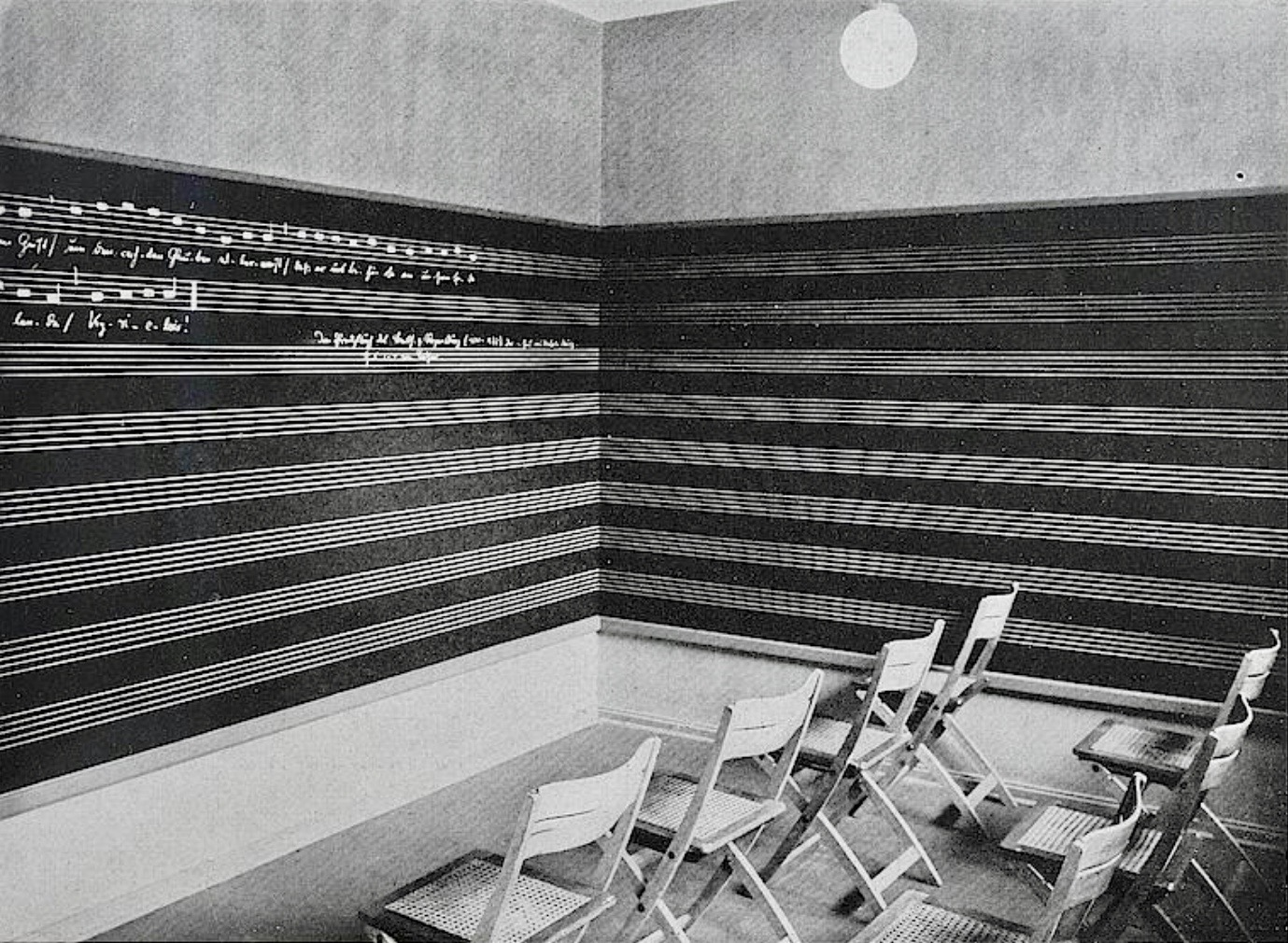 Classroom of Musikheim in Frankfurt an der Oder, Germany, planned by Erich Dieckmann (1896–1944).